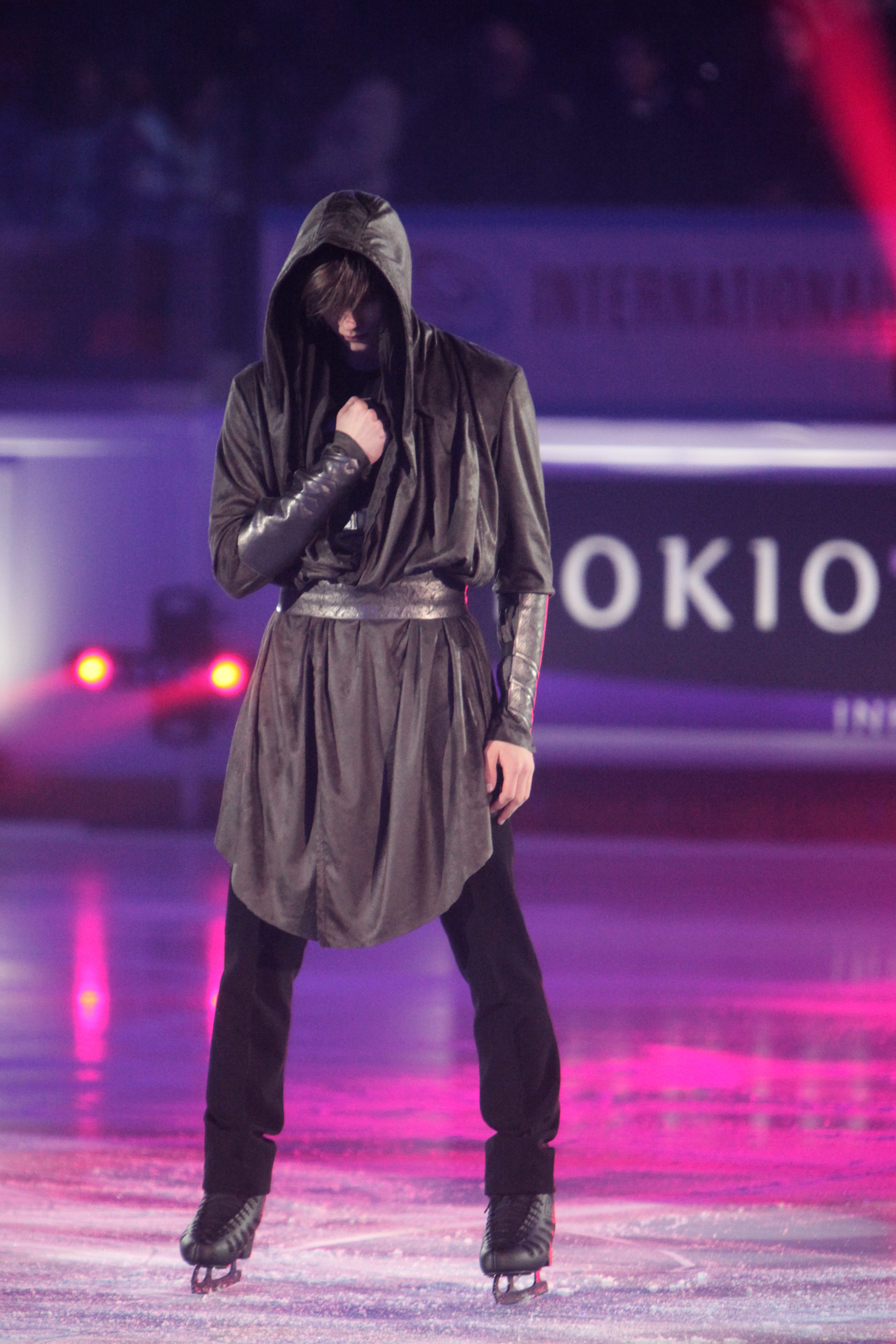 Dmitri Aliev during the gala at the Internationaux de France de Patinage 2018.